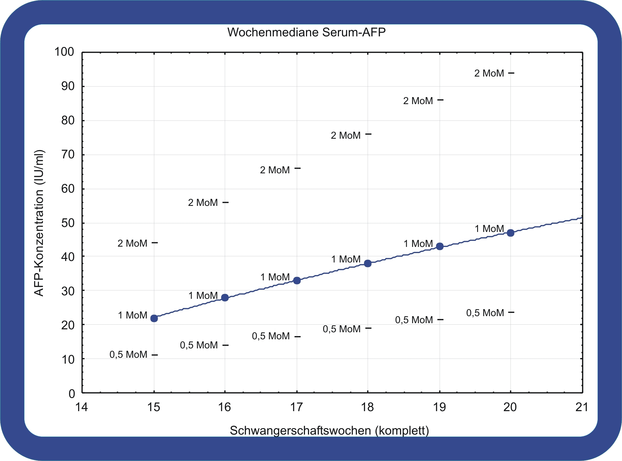 Serum-AFP medians between 15 and 20 weeks gestation